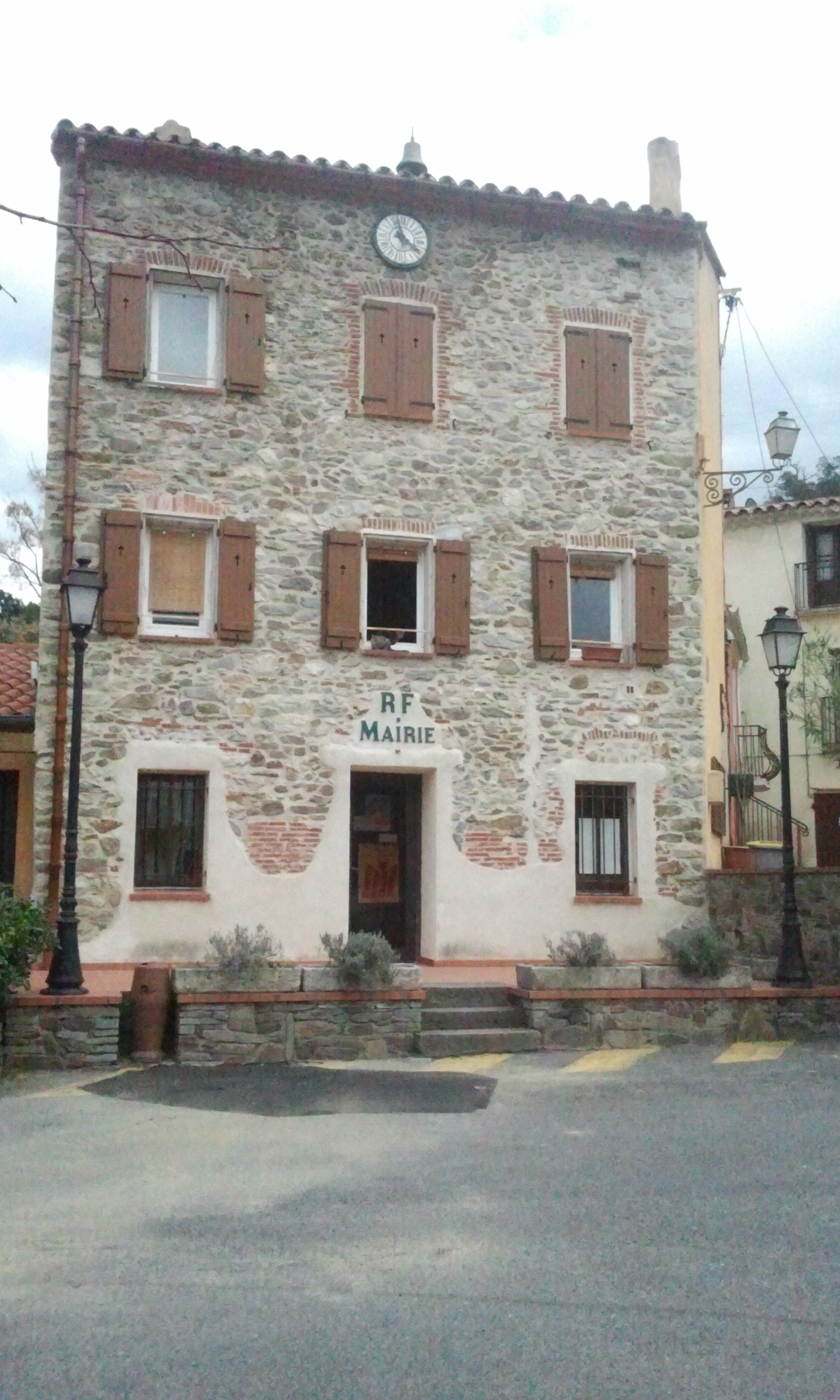 Townhall of Les Cluses